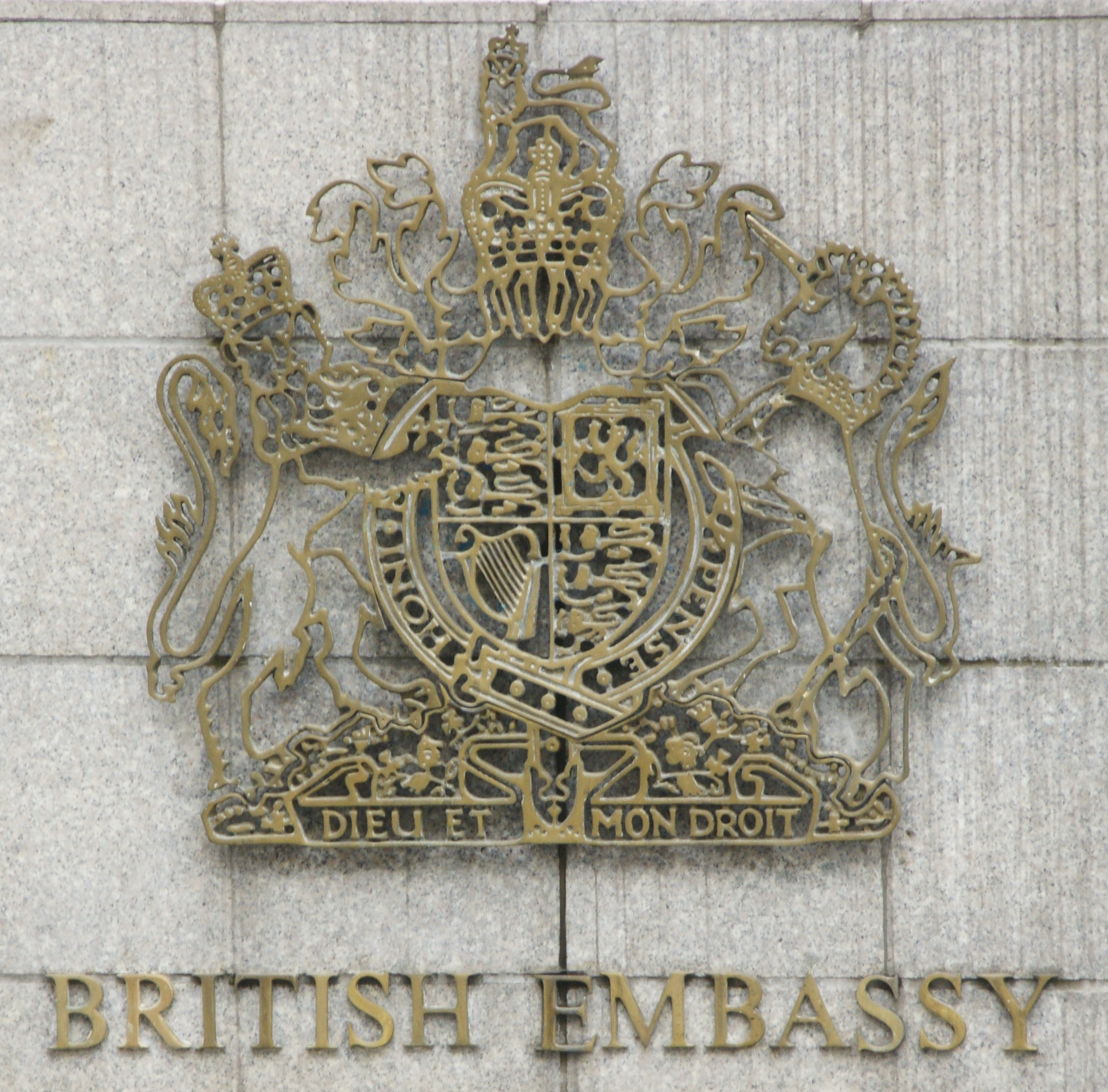 Coat of Arms, British Embassy, Budapest.